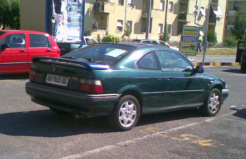 A Rover 200 mk2 Coupè with a 1590 cc (90 KW) engine in Rieti, Italy. Registred in June 1994.